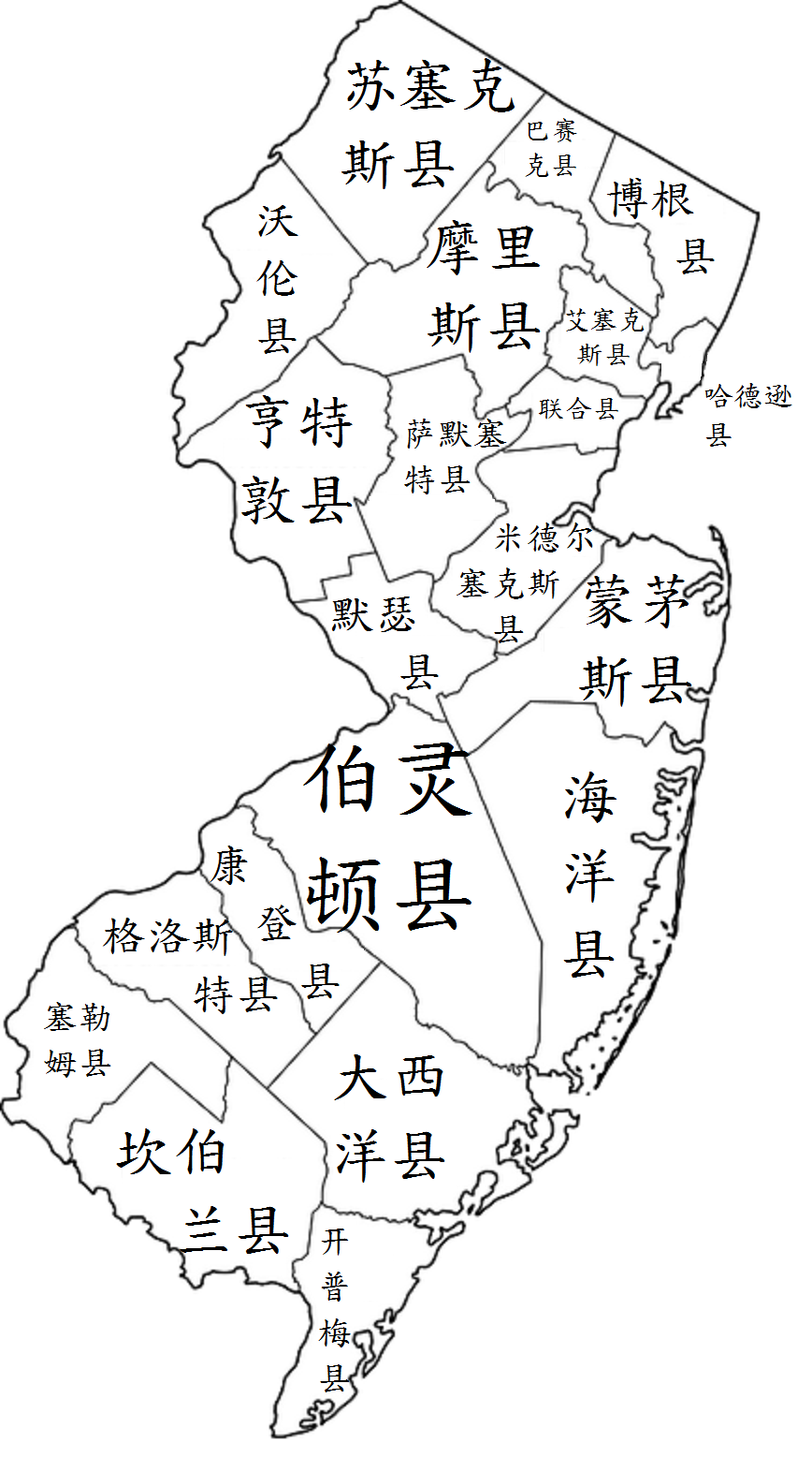 retouched picture of File:New_Jersey_Counties_Labeled.svg